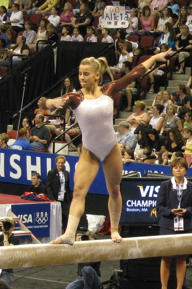 Alicia Sacramone performs on the balance beam at the 2008 U.S. National Championships in Boston, MA.